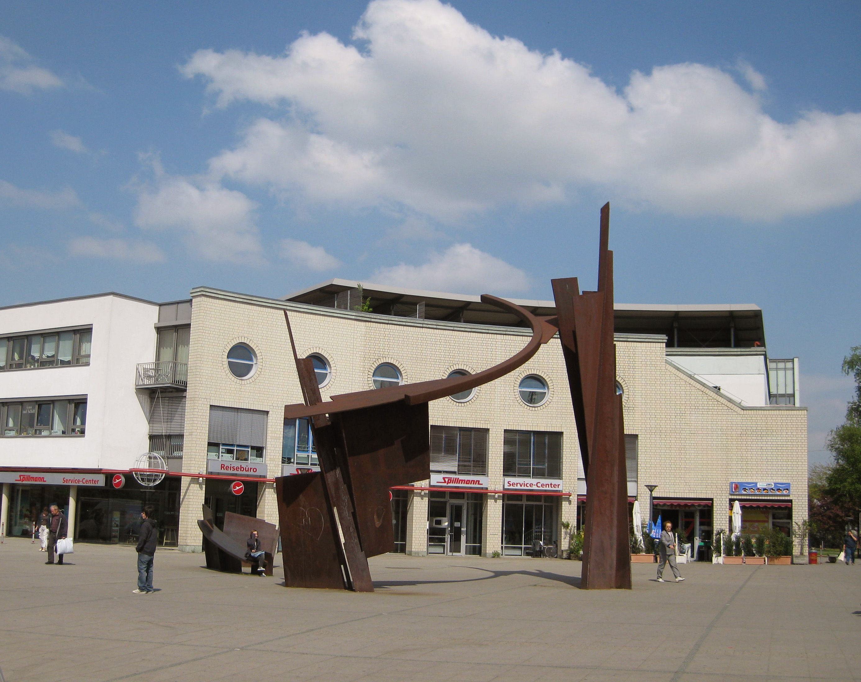 Sculptures in Bietigheim, Germany, Baden-Wuerttemberg, Reinhard Scherer, Brennpunkt, 1989/91